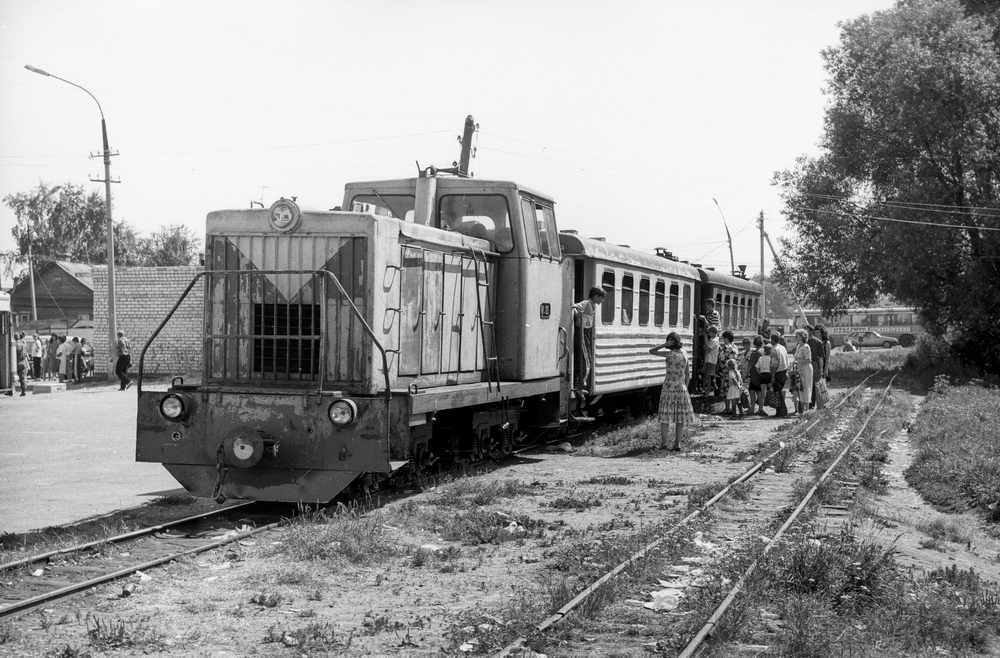 TU8-0261 locomotive and PV40 (PV51) wagons of Kupanskoe Transport Department, during boarding at the Pereslavl station.